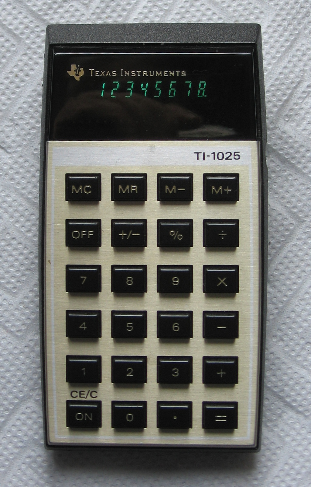 TI-1025 pocket calculator, 1977; 8 digits @ 7-segment LED, 9 V battery (type PP3 [USA], 6F22 [EU]), five functions: +-*/%